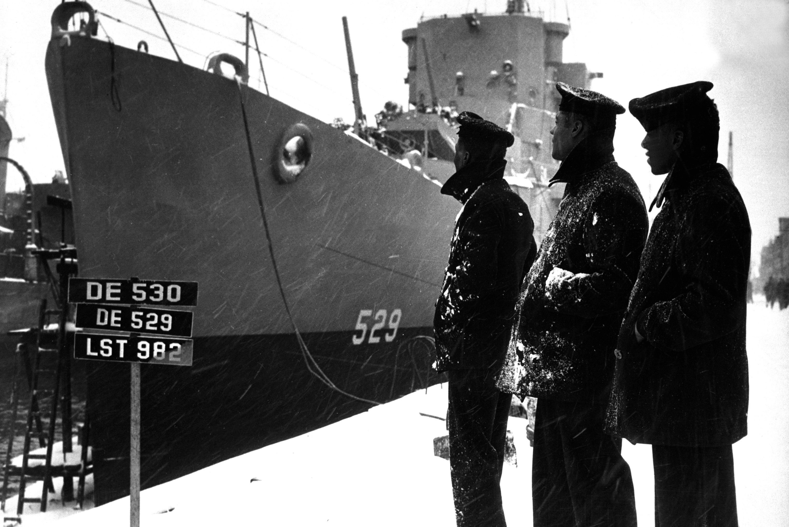 Negro sailors of the USS Mason (DE-529) commissioned at Boston Navy Yard on 20 March 1944 proudly look over their ship which is the first to have [a] predominately Negro crew.